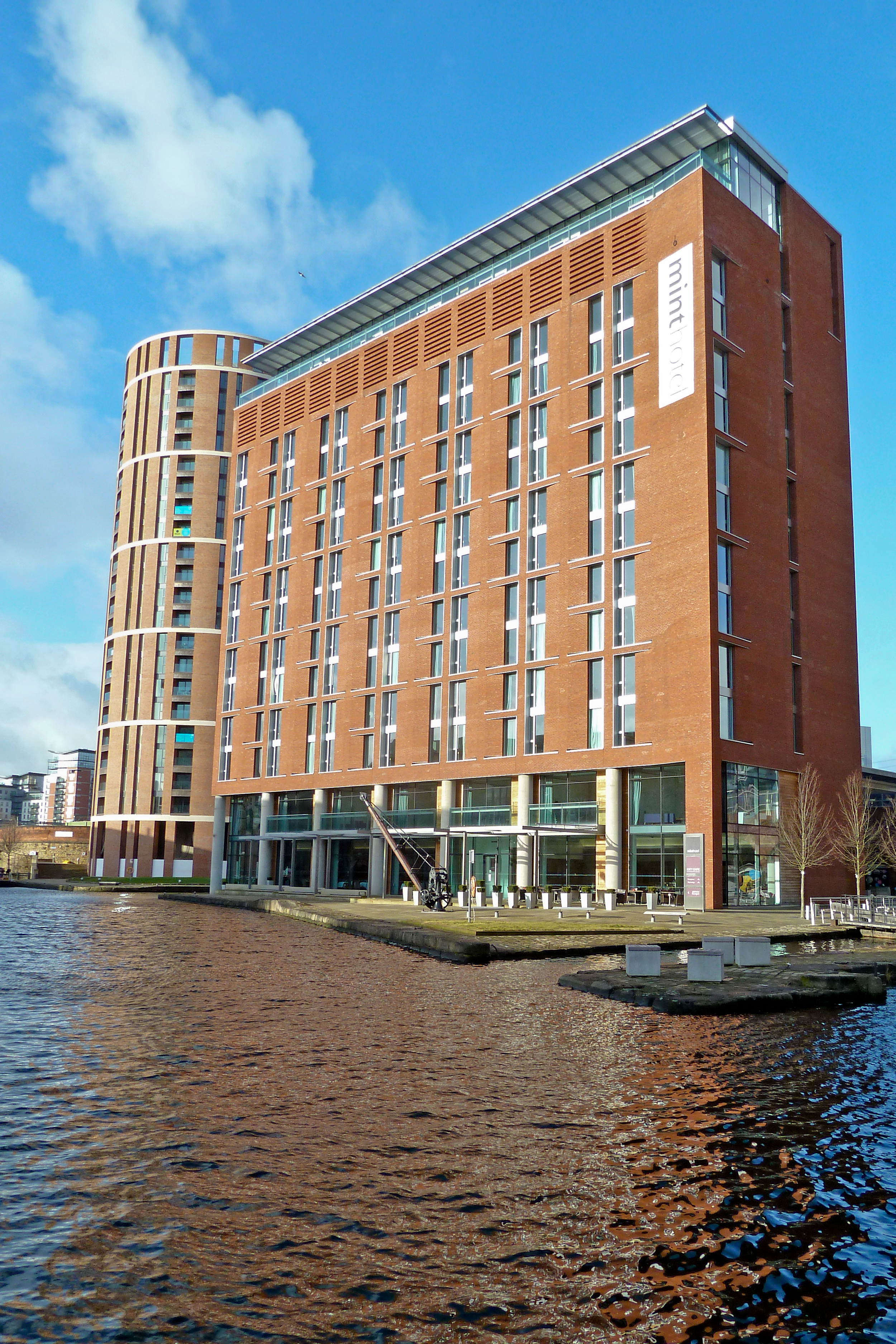 The Mint, Granary Wharf, Leeds